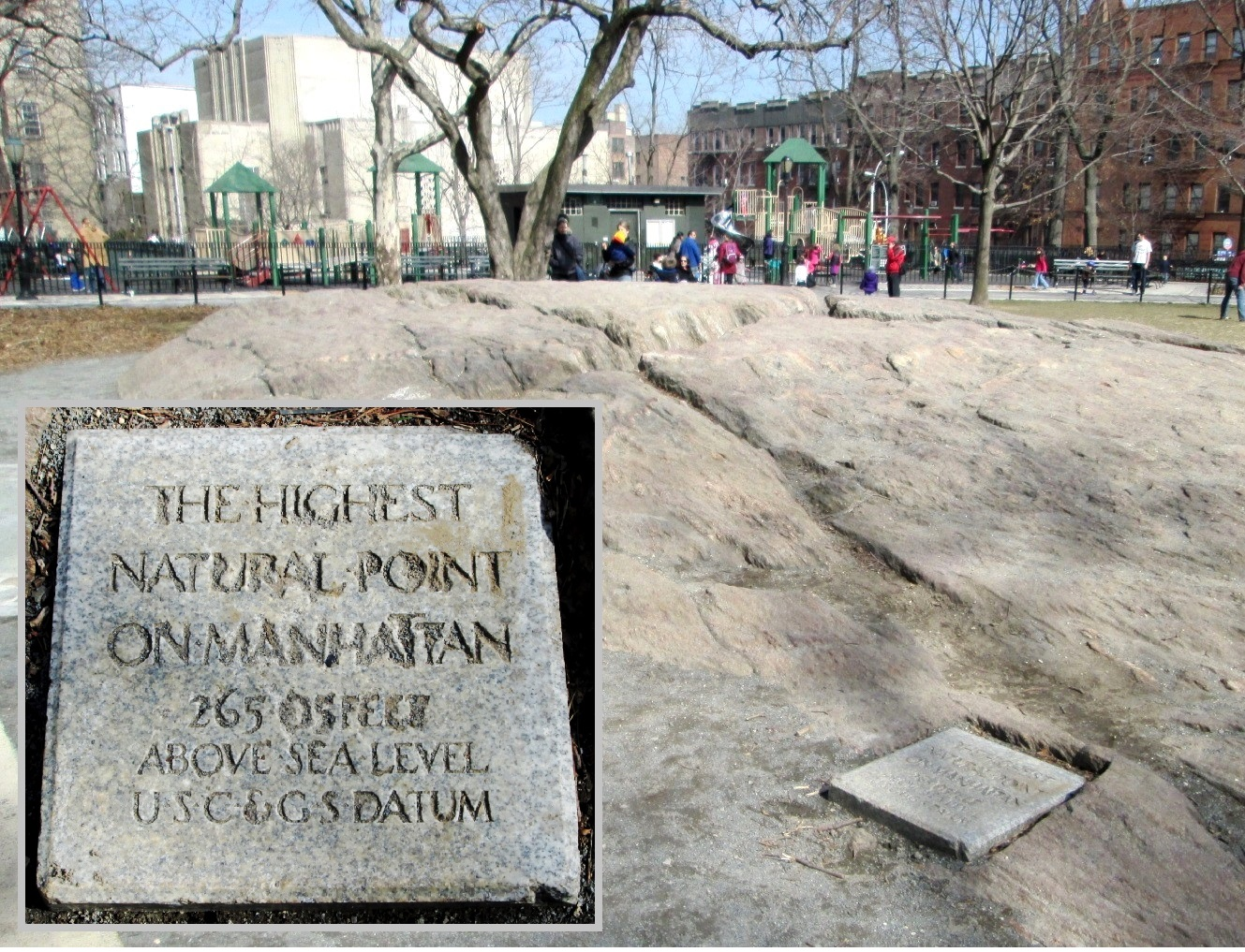 The highest natural point in Manhattan, New York is in Bennett Park, located in the Hudson Heights neighborhood of Washington Heights between Pinehurst and Fort Washington Avenues and West 183rd and 185th Streets. The inset shows the marker seen in the lower right of the larger image.